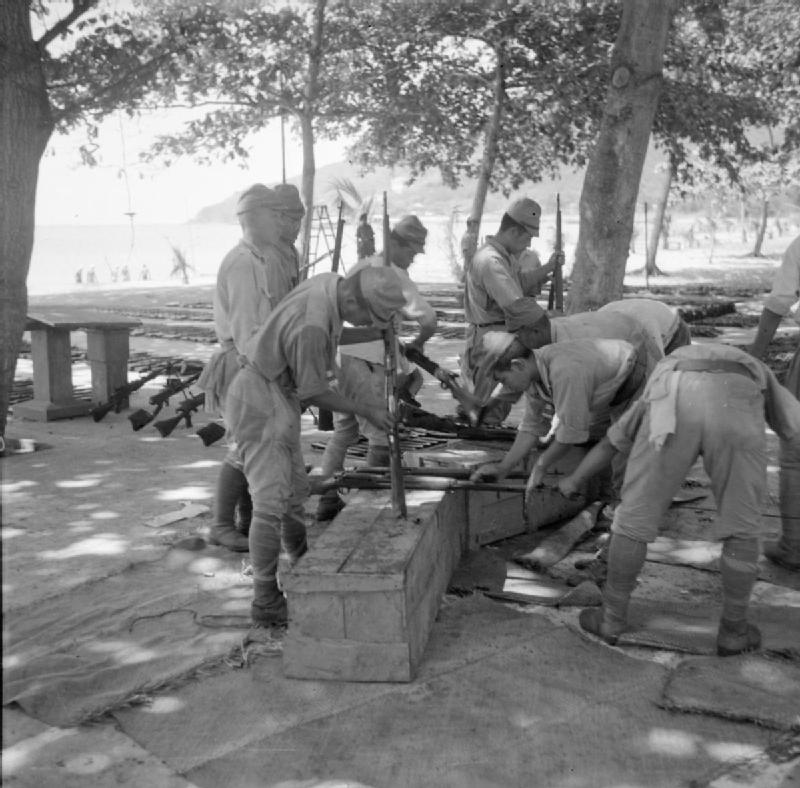 The Allied Reoccupation of French Indo-china Japanese prisoners of war clean and oil some of the thousands of surrendered weapons at the prisoner of war camp at Cape Saint Jacques.